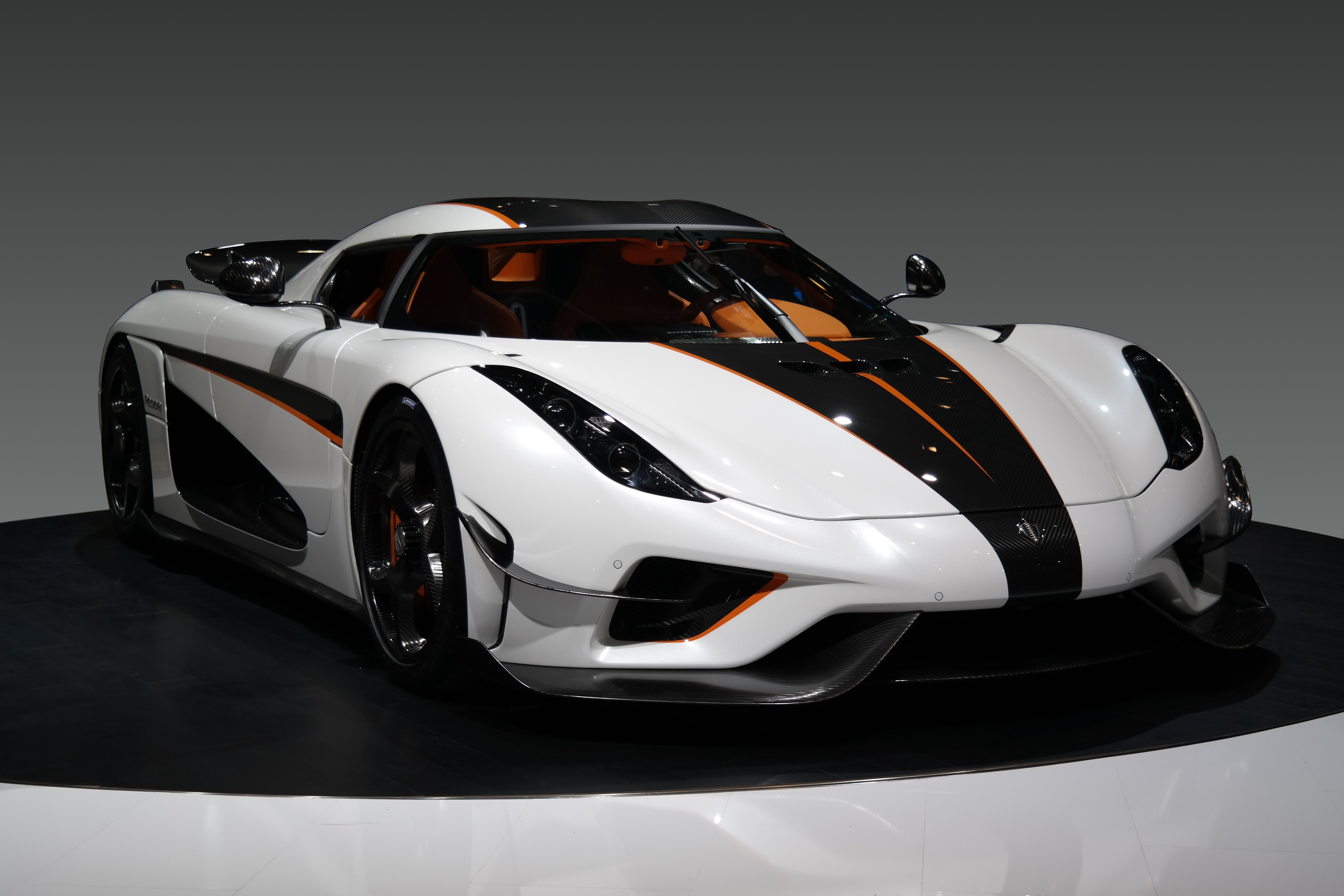 Front 3/4 view of Koenigsegg Regera